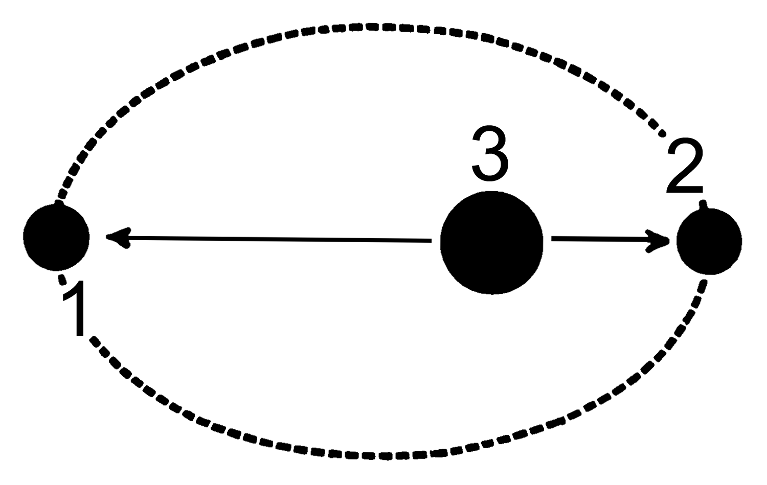 Line art drawing of an apogee. Apogee Perigee Earth